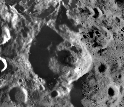 Belopolskiy crater